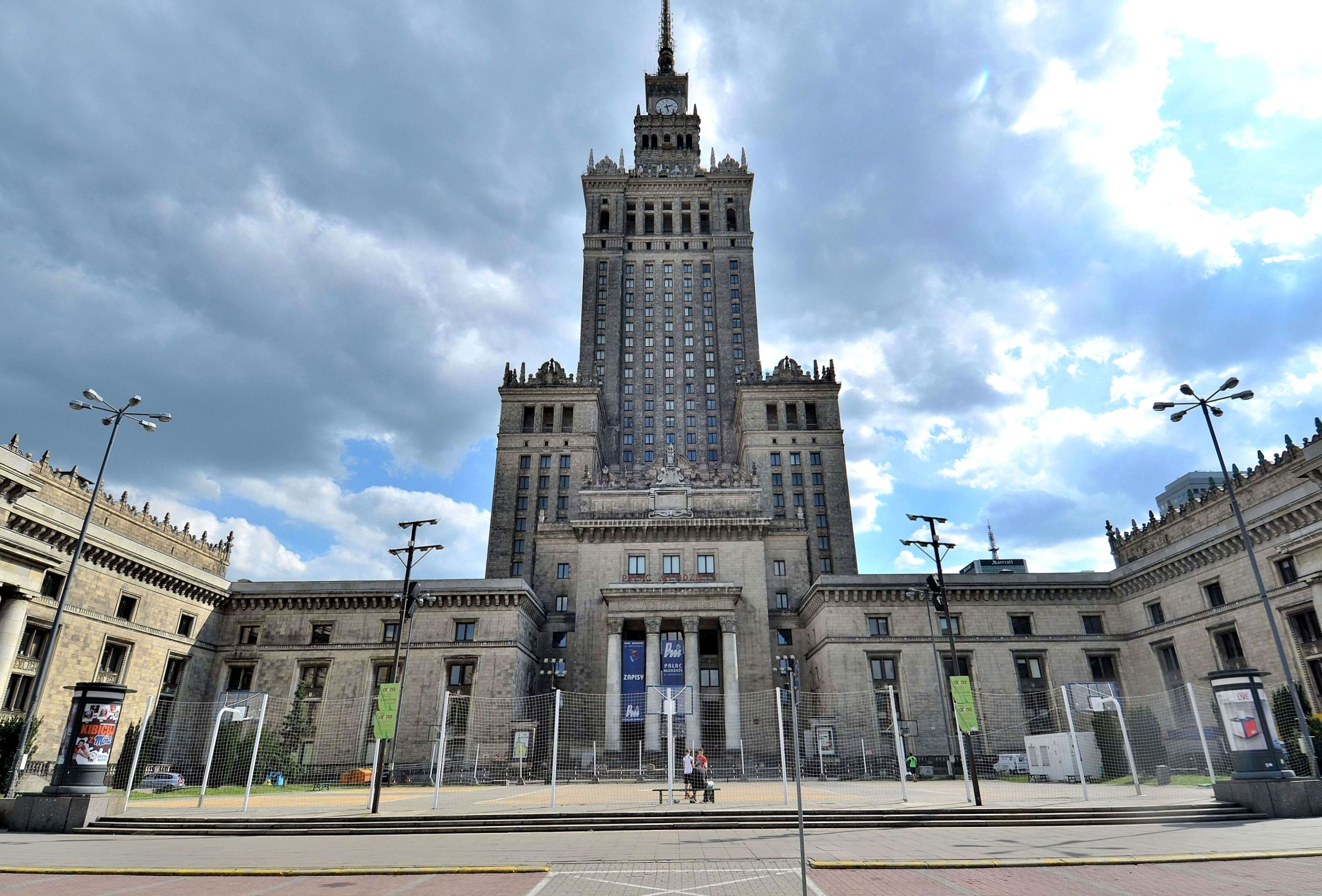 Palace of Culture and Science in Warsaw vieved from the north (Yount Palace) English | Polski | +/−